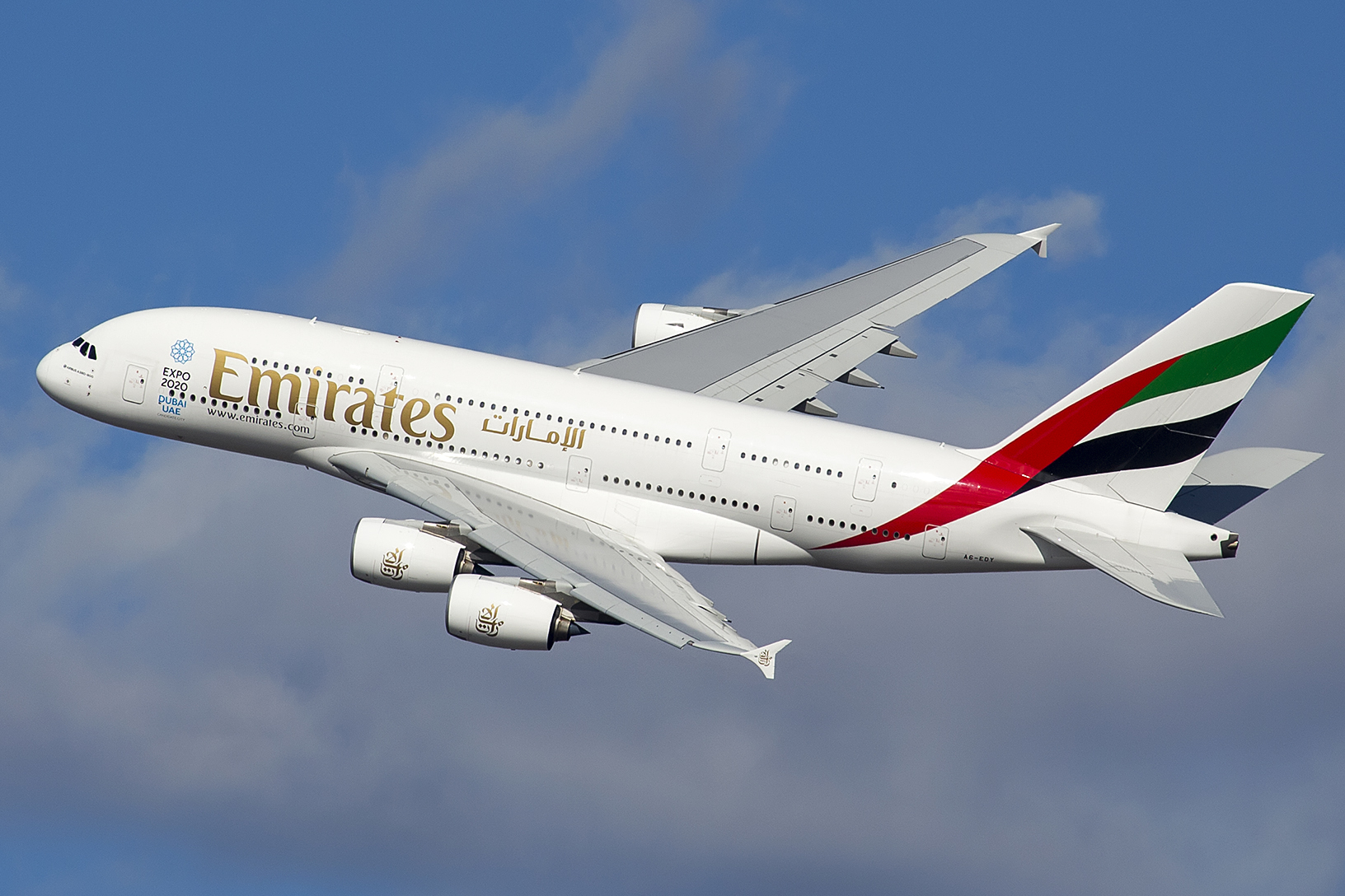 New York JFK